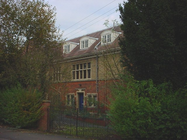 Bryn Hafod - Charles Wicksteed’s house This house belonged to Charles Wicksteed benefactor to the town of Kettering. It was last used as an annex to a Nunnery and is now scheduled for re-development. Charles Wicksteed conceived and developed the famous Wicksteed Park of Kettering which is still very popular today and is held for the town through a charitable trust. Originally he was a steam ploughing contractor who came to Kettering and set up an engineering factory in Digby Street. After the Great War he branched out into the manufacture of metal playground equipment and became the largest maker in Europe. The equipment that most of us played on as youngsters would have been made by his company. The name of the house means Summer Dwelling Hill and acknowledges his younger days in Wales where his family lived at Upper Eyarth (nr Ruthin) and later at Hafod y Coed Farm (Tremeirchion) in the Vale of Clwyd, North Wales.